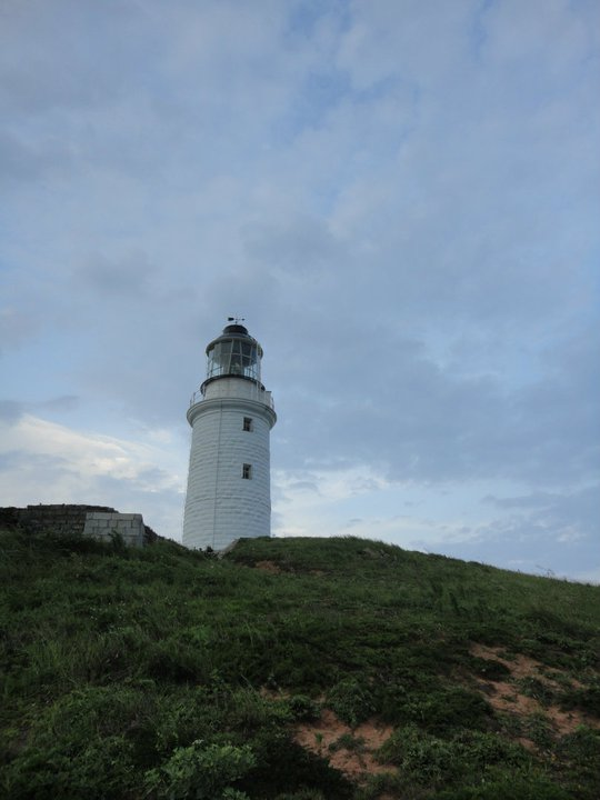 Dongquan Lighthouse